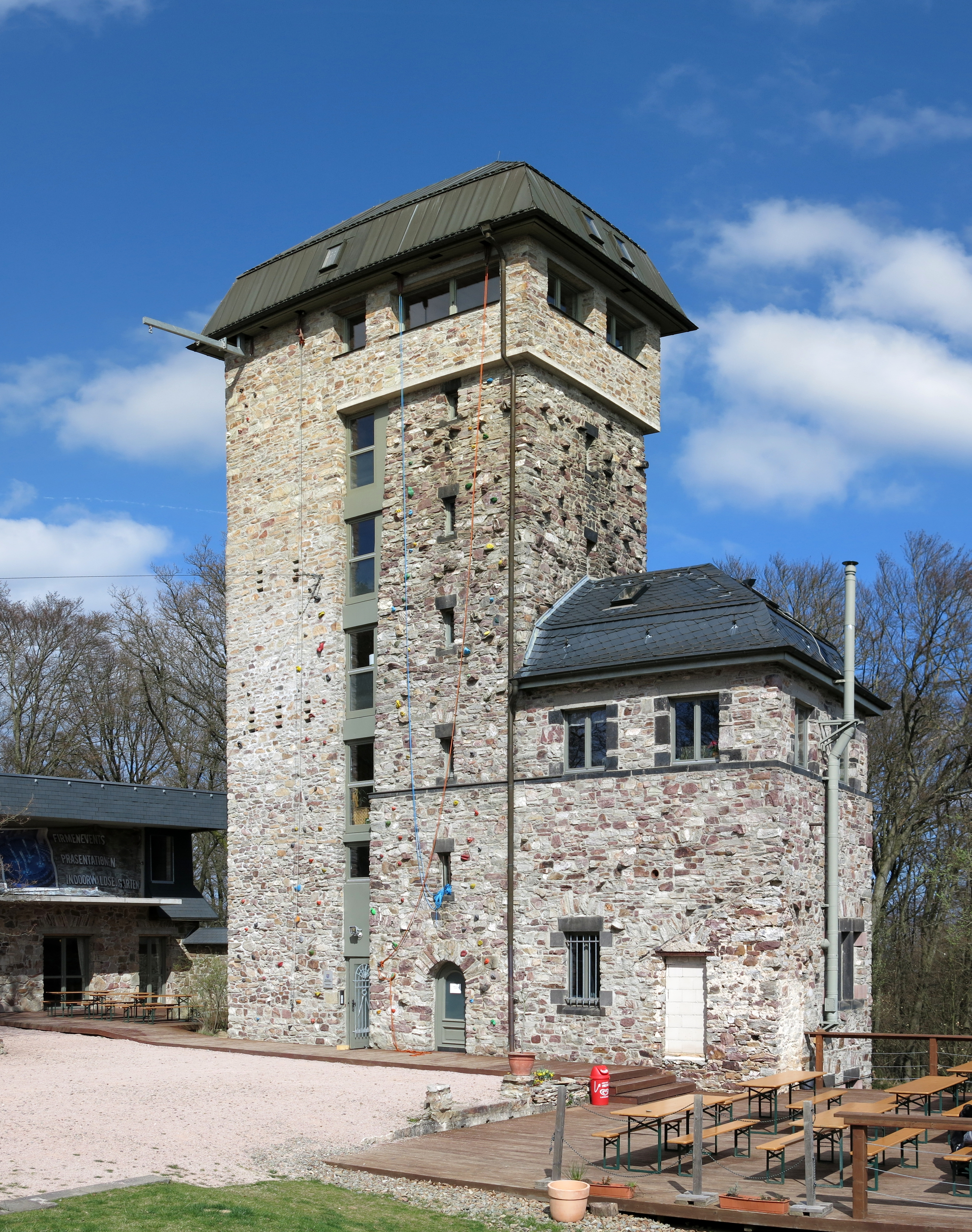 Lookout tower on the Hallgarter Zange